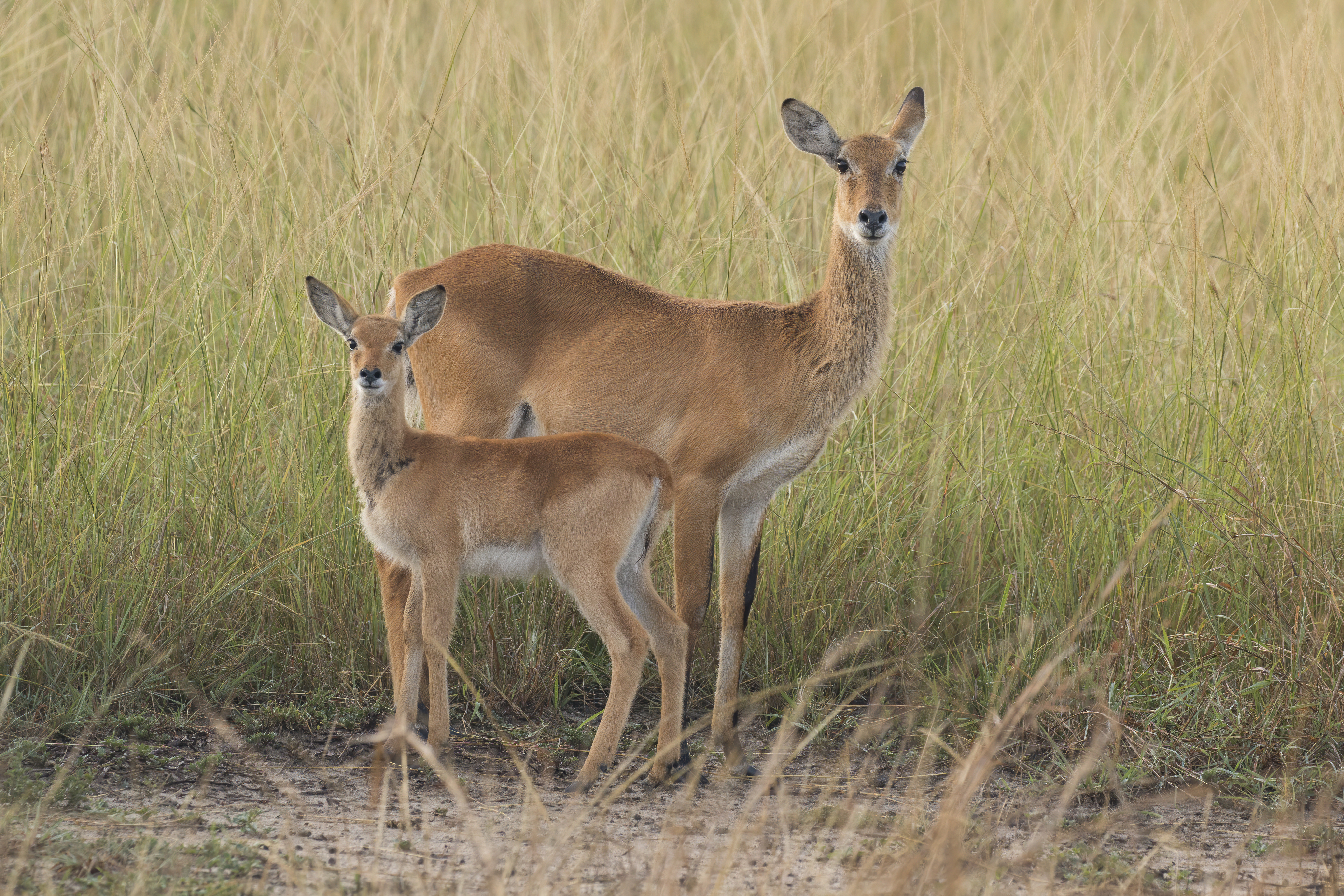 Ugandan kob (Kobus kob thomasi) female and calf, Semliki Wildlife Reserve, Uganda. Ugandan Kobs are found in most of the National Parks in Uganda.